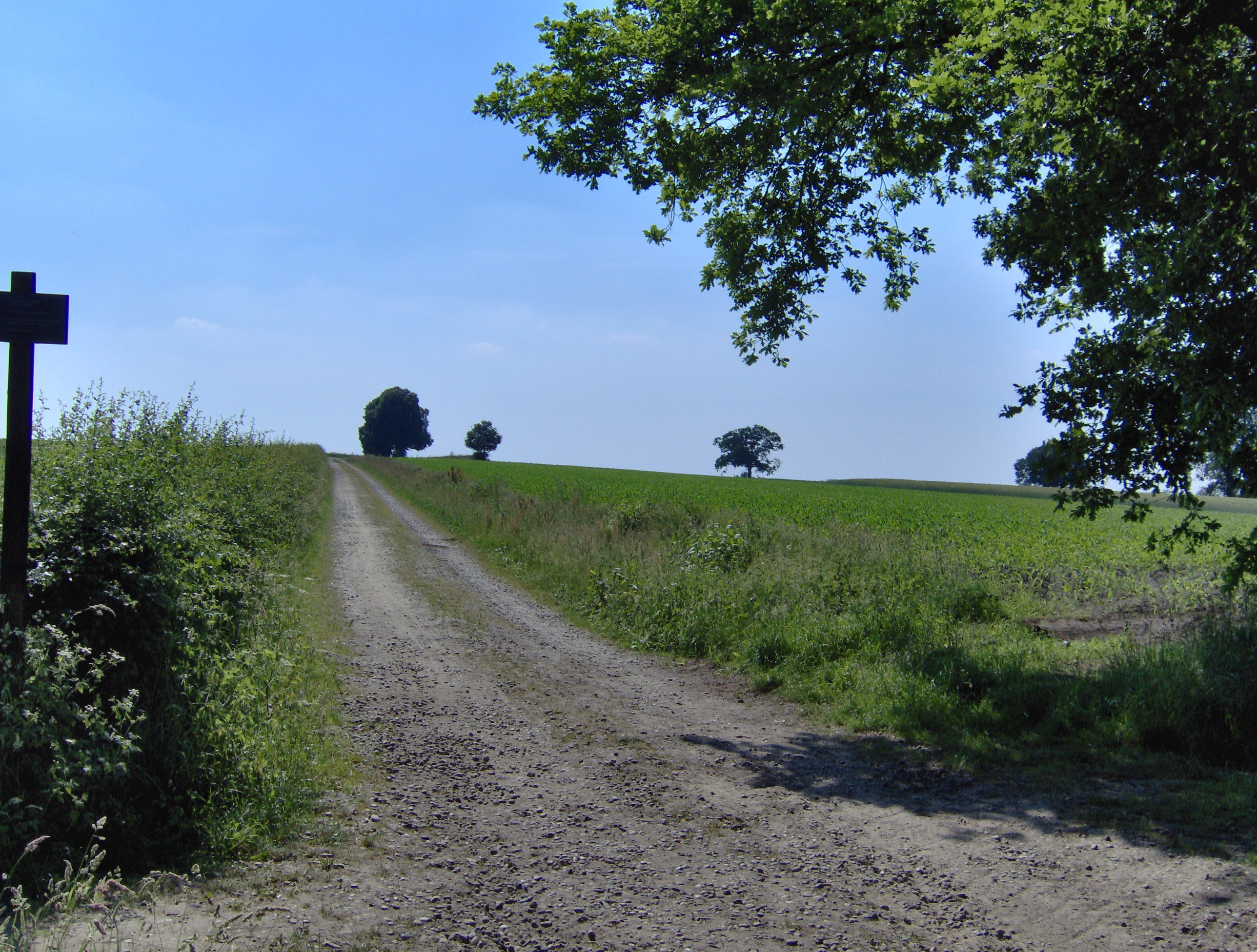 The Deldeneresch, in the municipality of Hof van Twente in the province of Overijssel, the Netherlands.